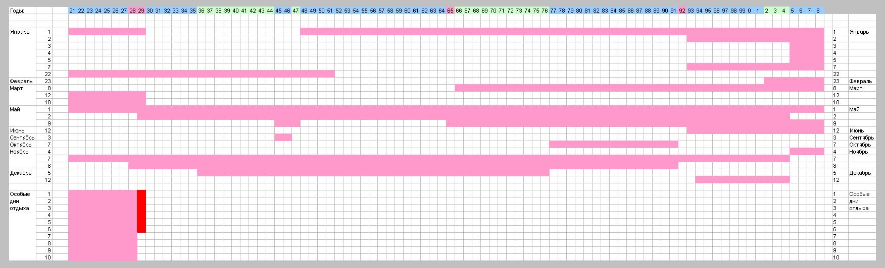 History of public holidays in Russia. Each column represents one year (1921-2008); each row, a particular day of the calendar that at least in some years was a public holiday (marked by red). Note that 1928, 1929, 1965, and 1992 have their own unique set of public holidays because of legislative changes that took effect during those years. Until September 24, 1929, the law provided for additional "special holidays", whose dates could be set by local authorities. Some of those were used for religious feast days - mostly Orthodox Christian, but also those of other religions in certain localities.